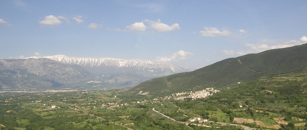 near the Majella, National Park of Abruzzo